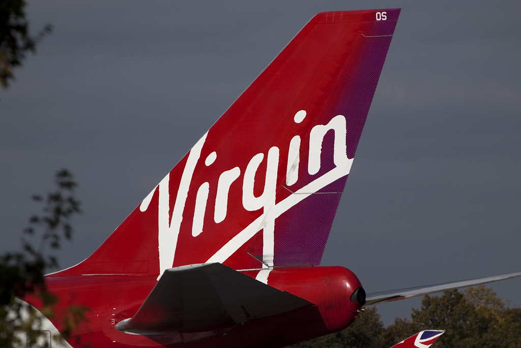 new Virgin tail